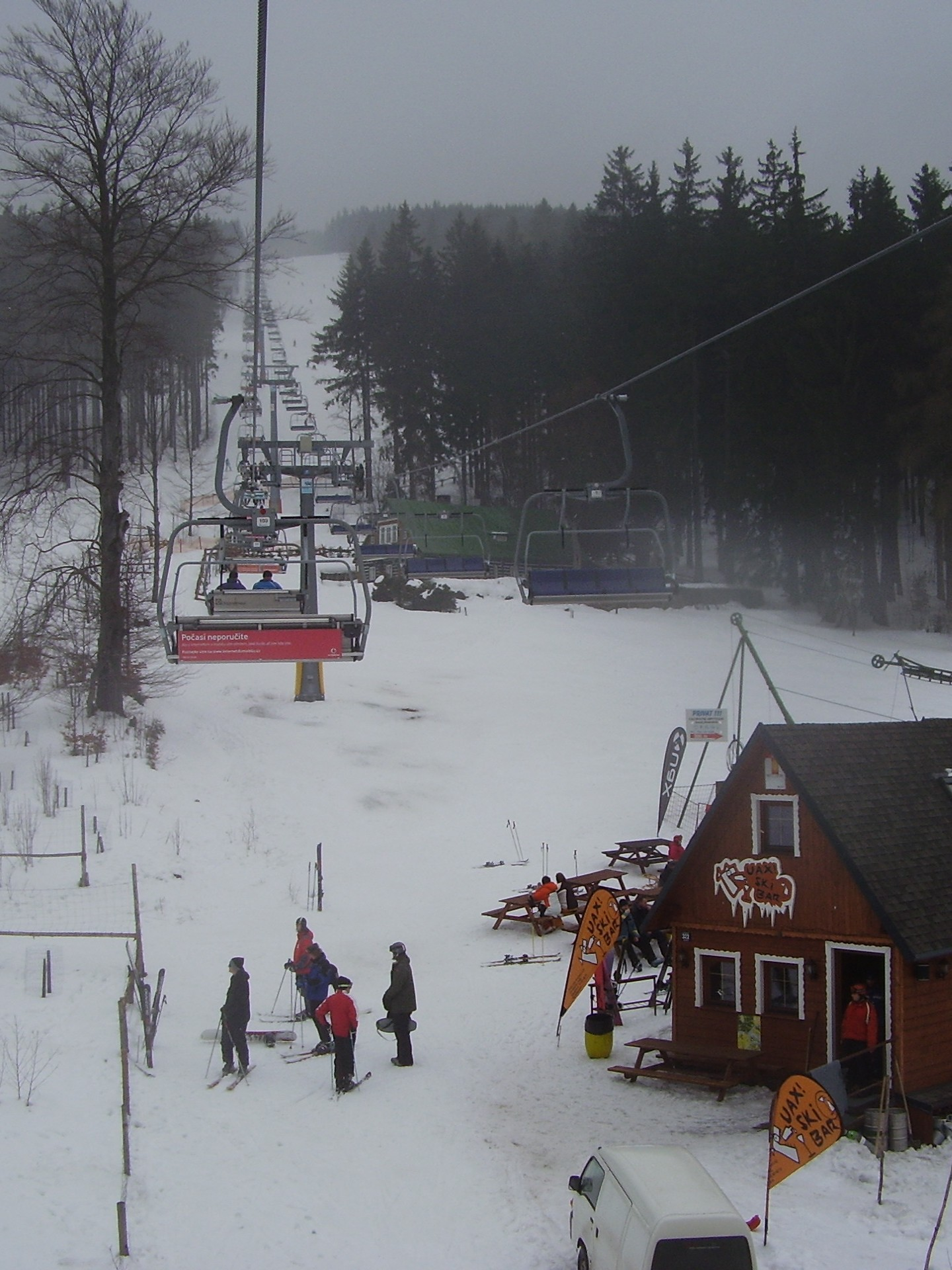 Chairlifts Protěž - Slunečná, Krkonoše